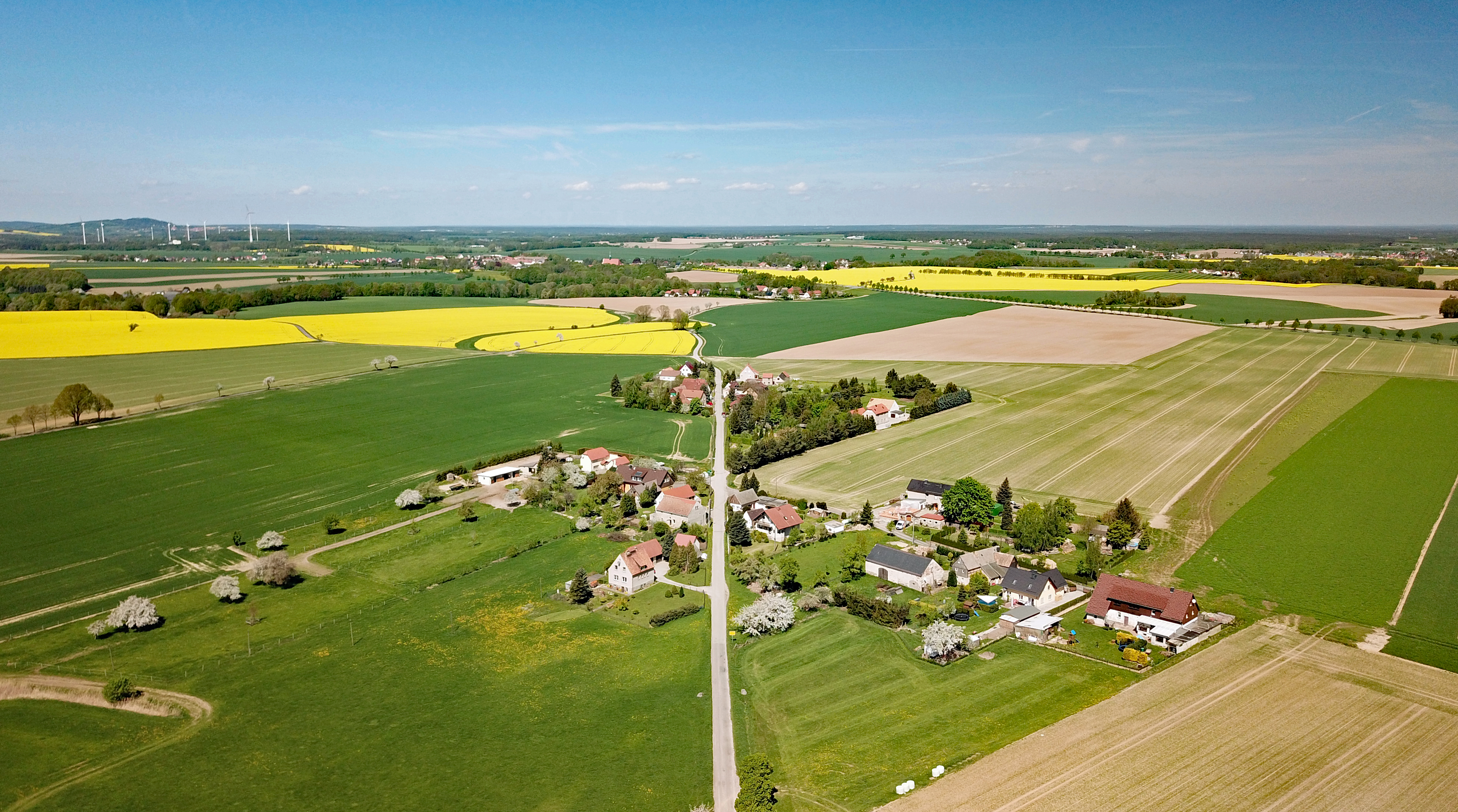 Neuhof (Burkau, Saxony, Germany) Hornjoserbsce: Powětrowy wobraz Noweho Dwora pola Porchowa.